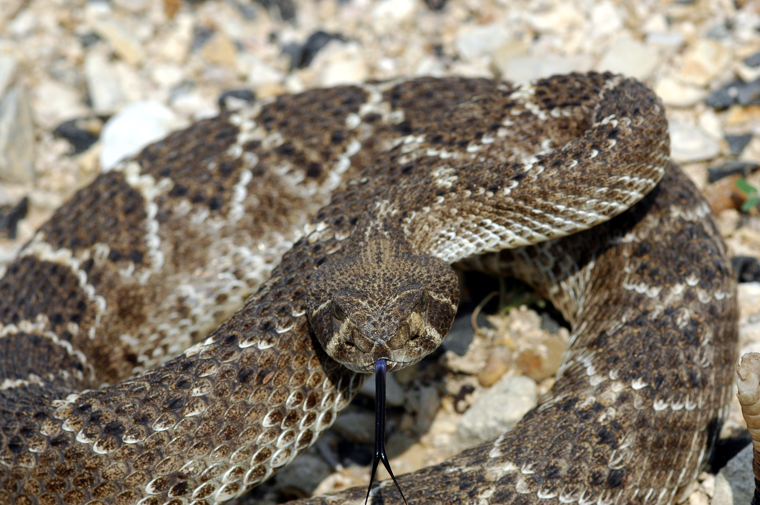 Snapped a few pictures of the snake at the location it was released. An old railroad raised track bed with plenty of rocks and crevices to hide in.